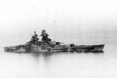 Battleship Richelieu. U.S. Navy's recognition slide